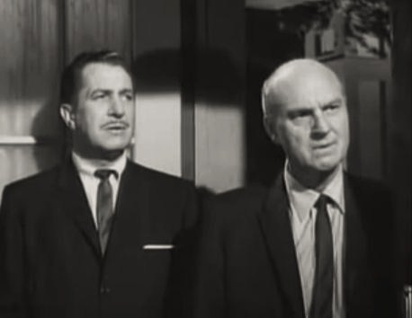 Vincent Price (left) and Gavin Gordon in the film The Bat (1959) - cropped screenshot